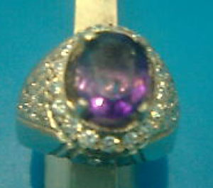 Kecubung Kasihan Ungu